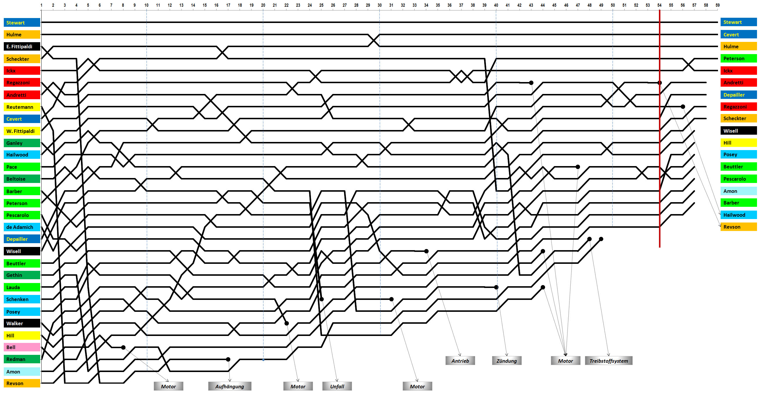 round table Grand Prix USA 1972